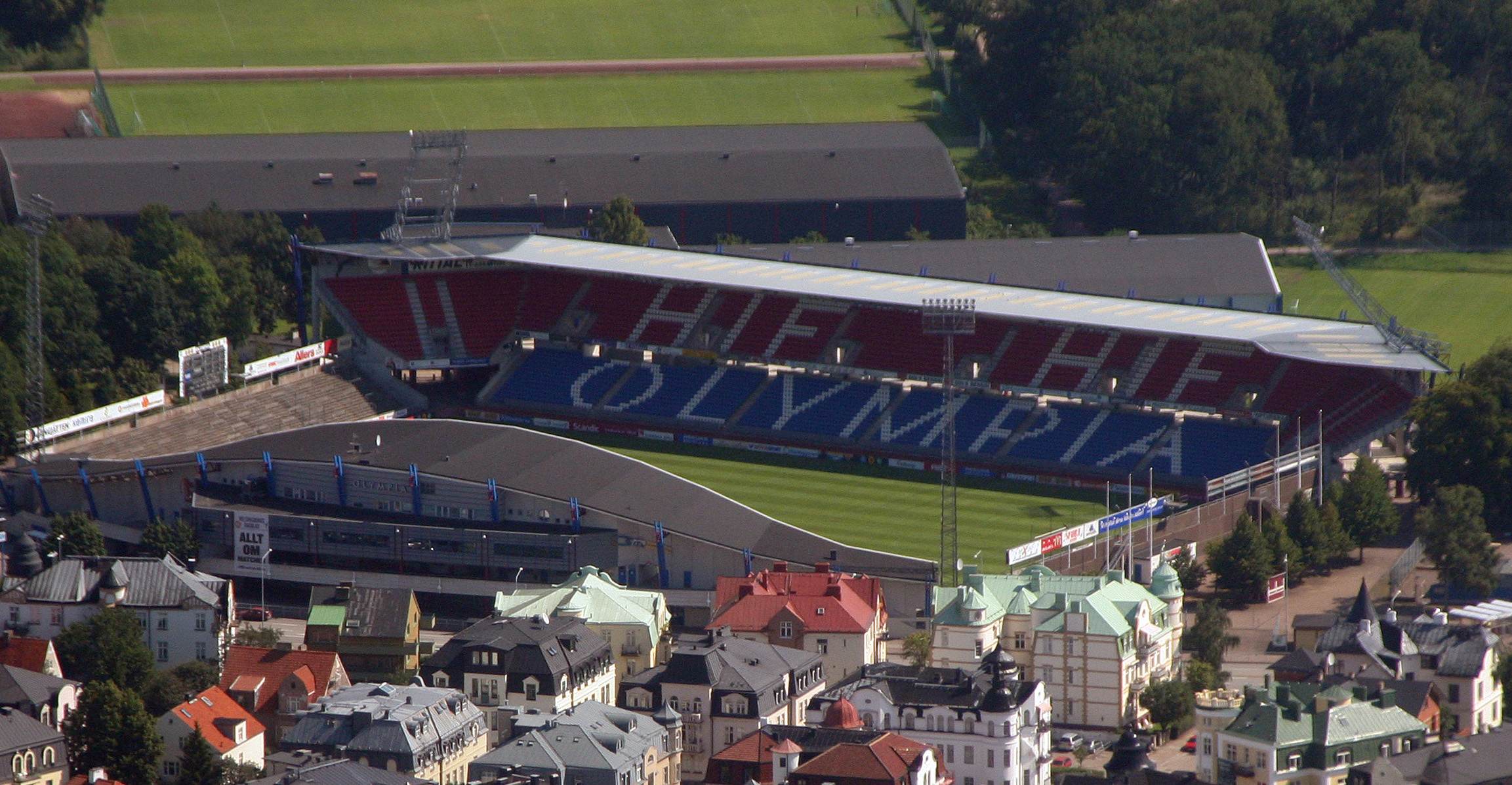 Olympia football stadium in Helsingborg, Sweden